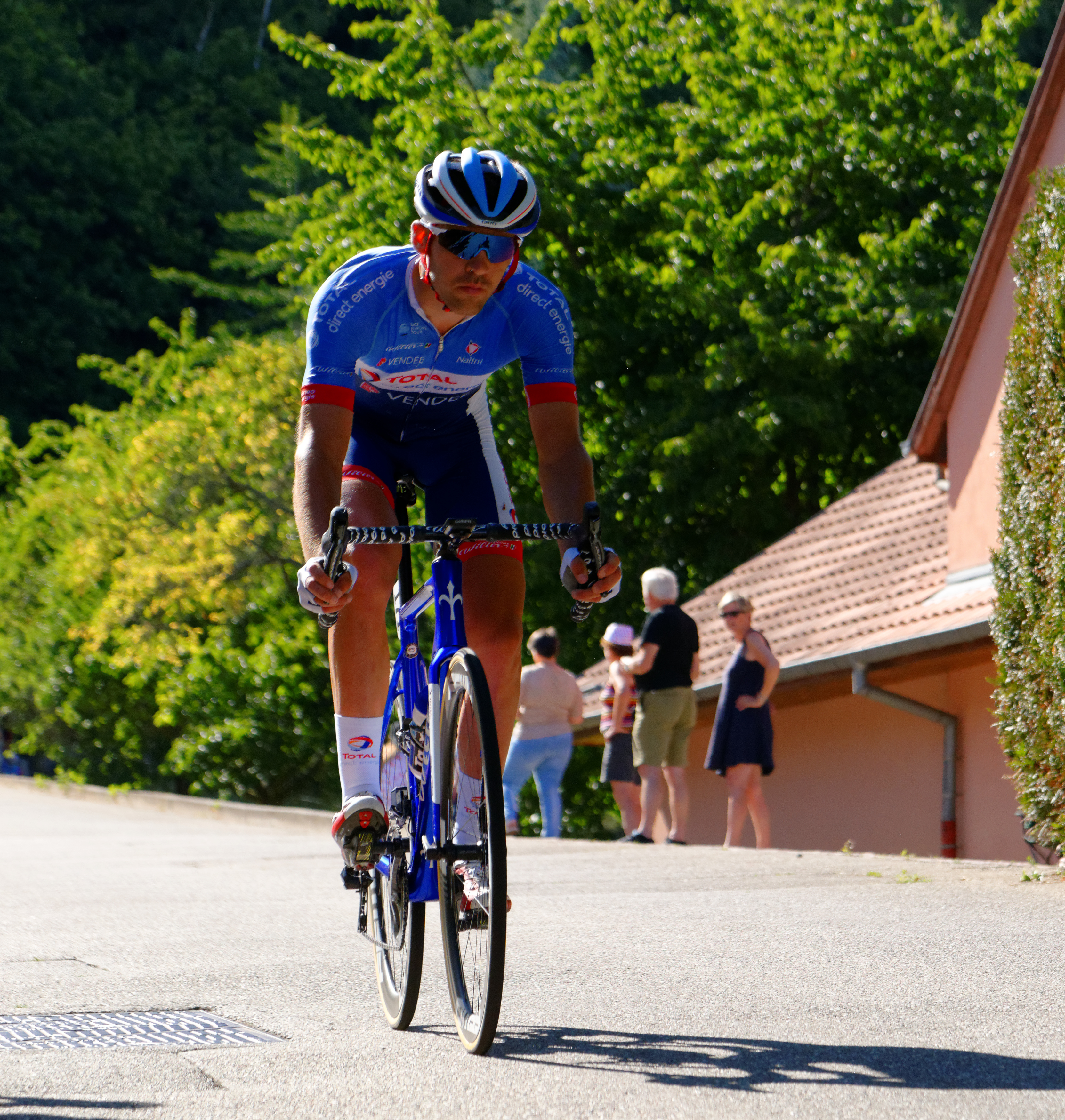 Personality rights warningAlthough this work is freely licensed or in the public domain, the person(s) shown may have rights that legally restrict certain re-uses unless those depicted consent to such uses. In these cases, a model release or other evidence of consent could protect you from infringement claims.